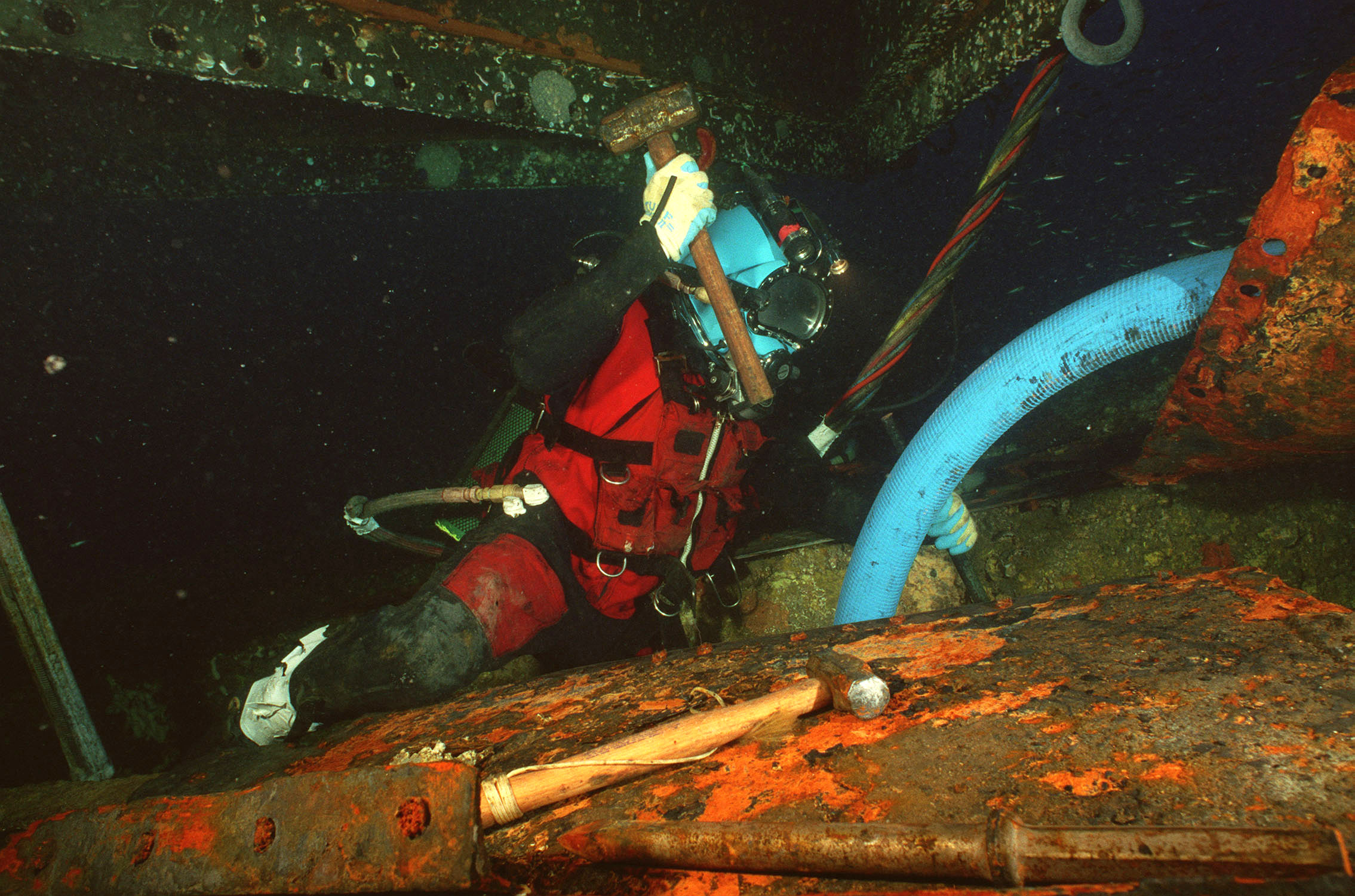 010703-N-5329L-005 Atlantic Ocean (July 3, 2001) – U.S. Navy diver, Senior Chief Engineman Bill Staples from Somersworth, N.H., uses a hammer and chisel to free deck plating from the historic wreck of USS Monitor. Staples and other U.S. Navy saturation divers are working around the clock with archaeologists from the National Oceanographic and Atmospheric Administration (NOAA) to salvage the main engine and other artifacts from the wreck to be preserved and later displayed at The Mariners Museum in Newport News, VA. Divers are working from the Derrick Barge “Wotan”, which is acting as the main support vessel during the Monitor 2001 Expedition, the sixth joint U.S. Navy and NOAA expedition to preserve the historic vessel. The ship went down off the coast of Cape Hatteras, NC, in 1862 during a severe storm. U.S. Navy Photo by Photographer’s Mate 2nd Class Petty Officer Eric Lippmann. (RELEASED)